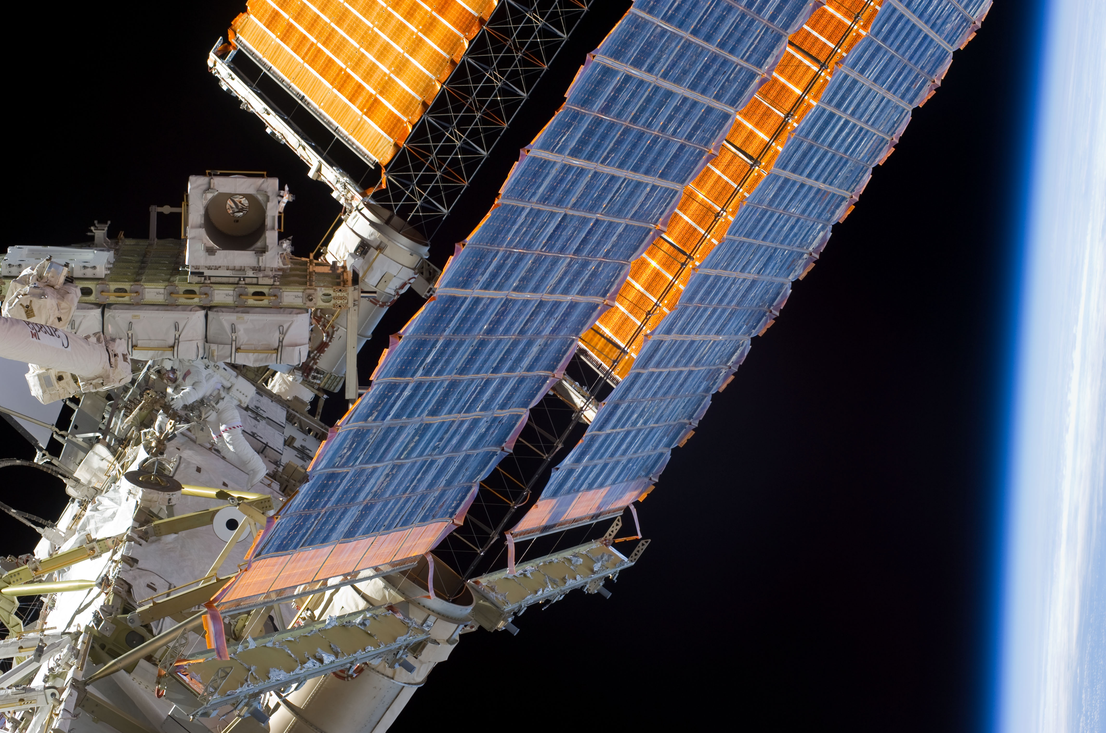 NASA astronaut Michael Good, STS-132 mission specialist, participates in the mission's third and final session of extravehicular activity (EVA) as construction and maintenance continue on the International Space Station.